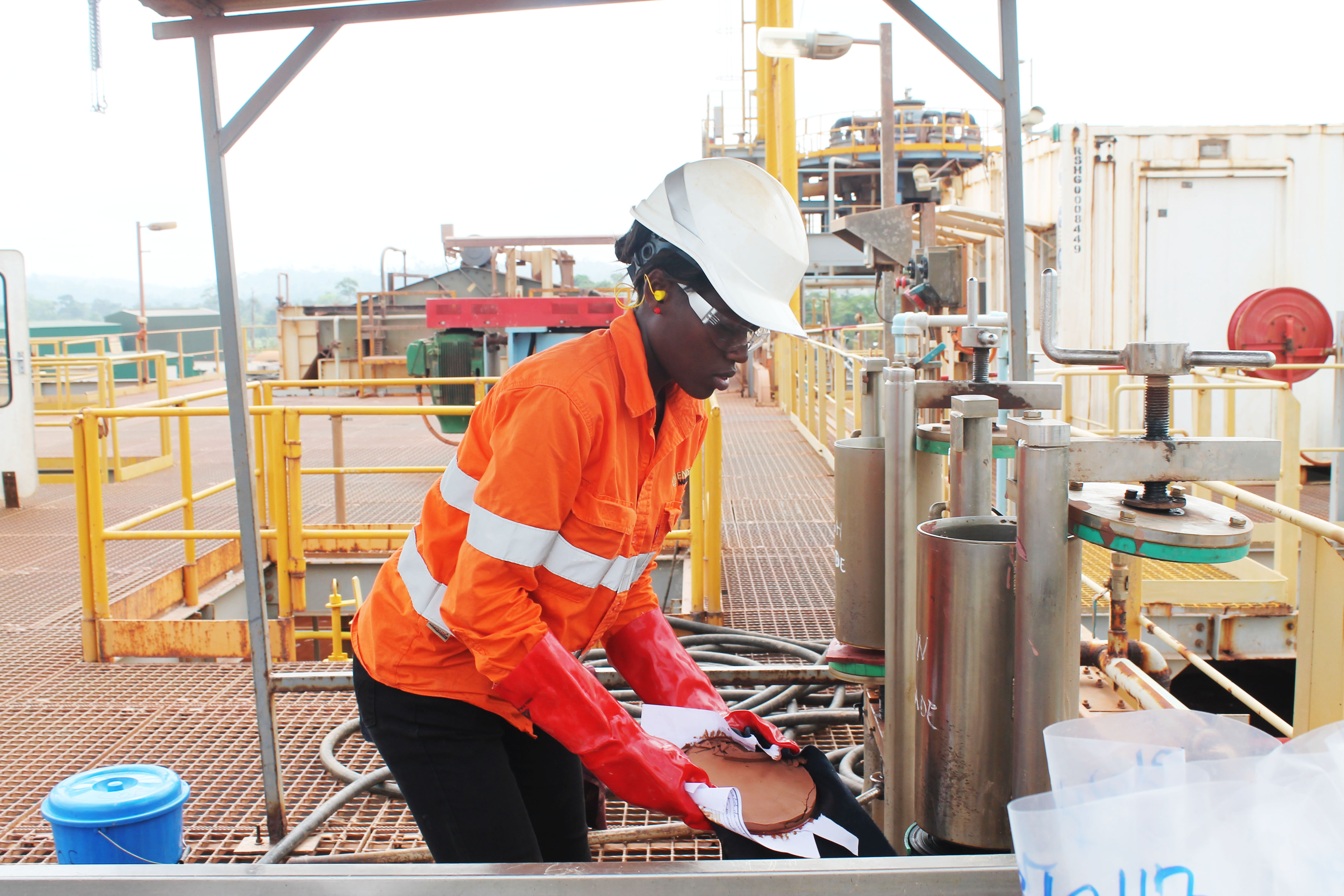 Miss Ekepke Lydie is a young ivorian, working in a mining company, in the city called Hire in Ivory Coast, as a process plant operator. Every day, the tasks she has to do is related to the gold grade control in the ore. This is an image of "African people at work" from Ivory Coast